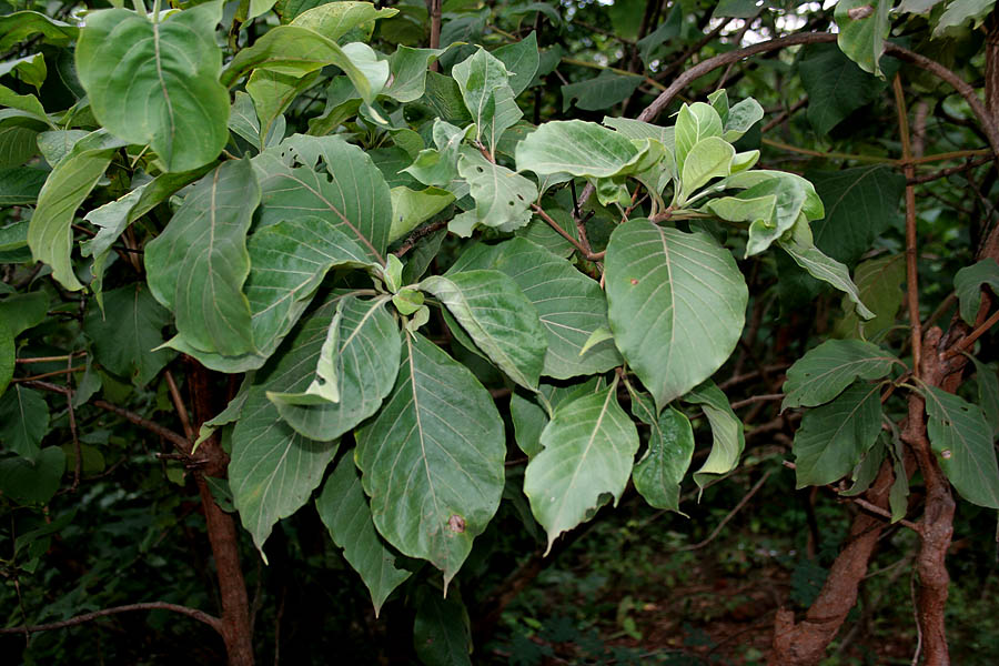 Hymenodictyon orixense Wall. (syn. H. excelsum; Cinchona excelsa)- bridal couch plant, mountain sage • Assamese: kodam, paroli • Bengali: latikarum • Garo: bodi kiru chongipa • Gujarati: ભમ્મર છાલ bhammar chaal, લુણીયો luniyo, મધમહુડો madhamahudo • Hindi: काला बचनाग kala bachnag, भुरकुर bhurkur • Kannada: ದಿಡ್ಡಿ ಮರ diddi mara, ದೊಡ್ಡಿ ಮರ doddi mara, ಡೊಲಿ ಮರ doli mara • Khasi: dieng dohlbong sir • Konkani: दाम्डेली damdeli • alayalam: ചക്കതേക്ക് cakkatheekk, ഇത്തിള്‍ iththil, പെരുന്തൊലി peruntholi • Marathi: भोरसाल or भोरसाळ bhorsal, भौरसाळ bhoursal, भ्रमरसाळी bhramarsali, दोंद्रु dondru, कंबळ kambal, कुडा kuda • Nepalese: लति कर्मा lati karma • Oriya: dudupa, guliya • Punjabi: barthoa • Rajasthani: lunia • Sanskrit: भ्रमरछल्ली bhramarchalli, भृङ्गःवृक्ष bhringah-vriksha, उग्रगन्ध ugragandha • Tamil: வெள்ளைக்கடம்பு vellai-k-katampu • Telugu: బందారుచెట్టు bandaaru-chettu- a young plant at Ananthagiri Hills, in Rangareddy district of Andhra Pradesh, India.